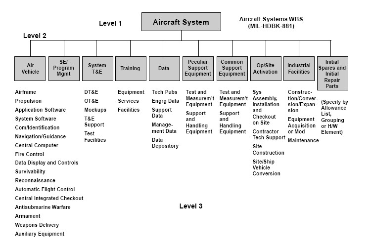 Image extracted from Systems Engineering Fundamentals. Defense Acquisition University Press, 2001